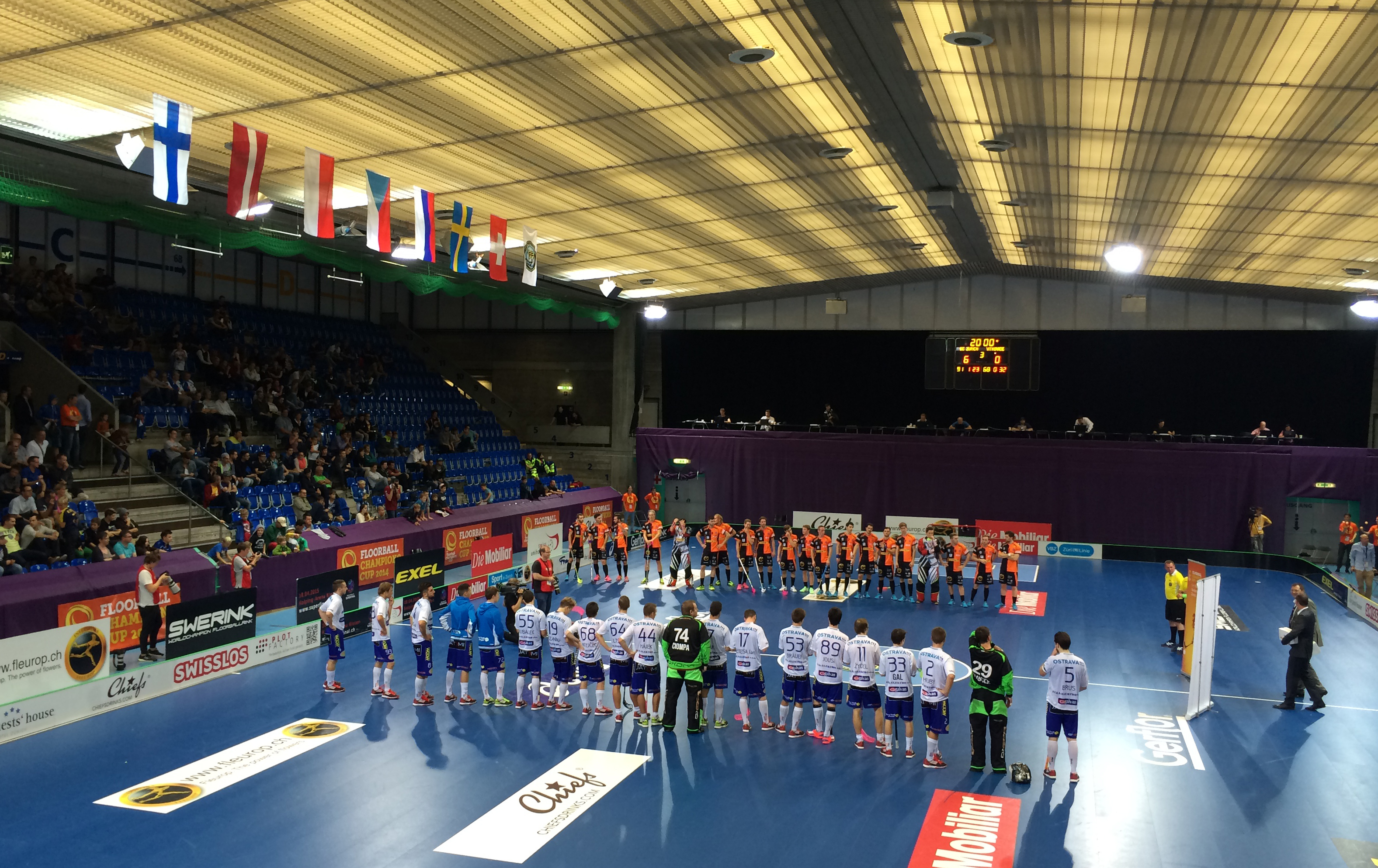 Floorball: Champions Cup at Saalsporthalle Zürich; ceremony after the game that Grasshopperclub Zürich won against 1. SC Vítkovice